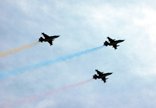 Armenian air force showing Armenian flag colors.